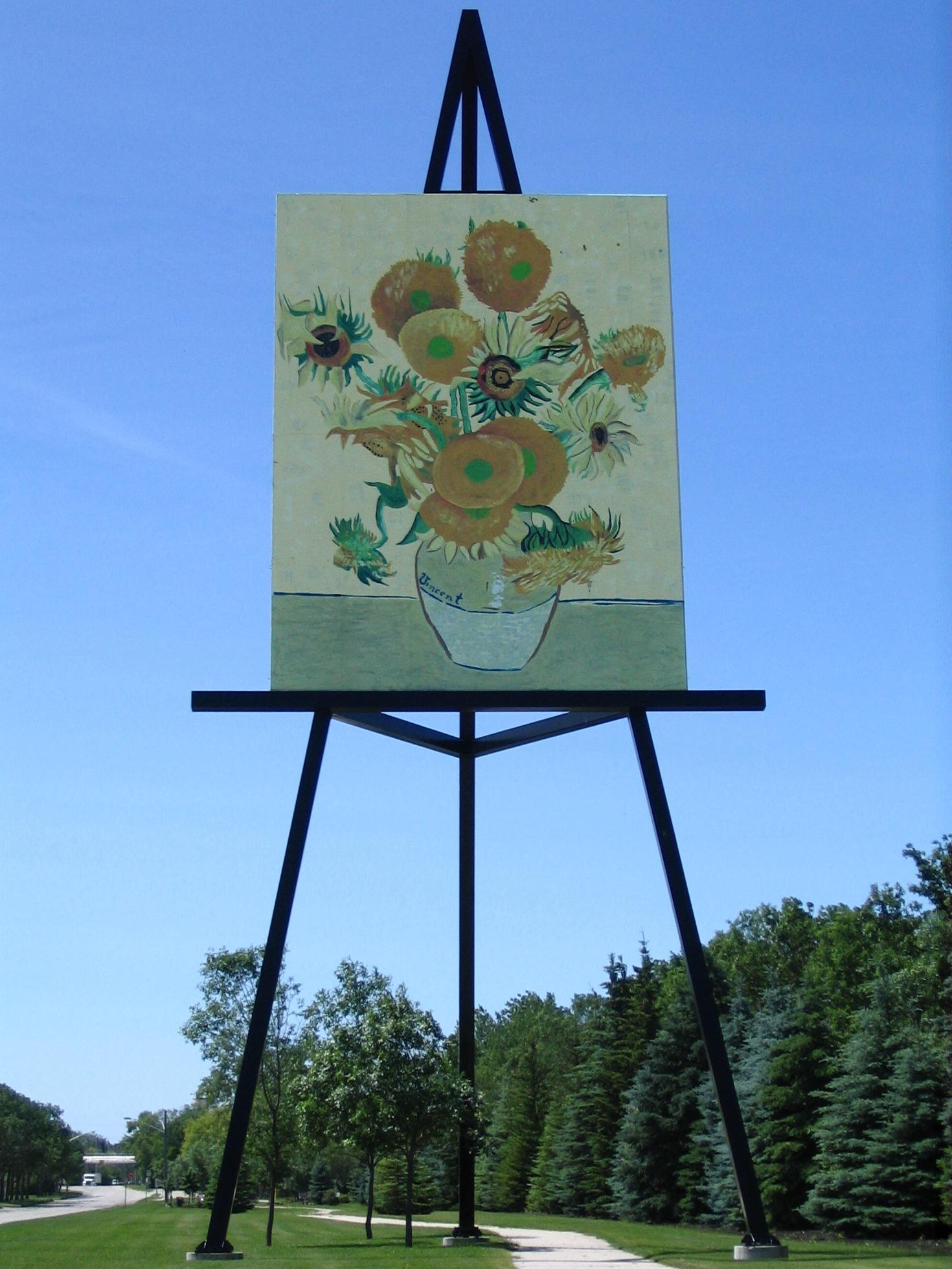 For reasons I did not bother to explore, Altona MB has a giant replica of a Van Gogh painting plunked beside one of their streets.